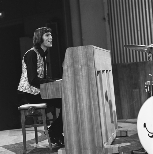 Smyle, rop/rock program 'Popzien' on Dutch television